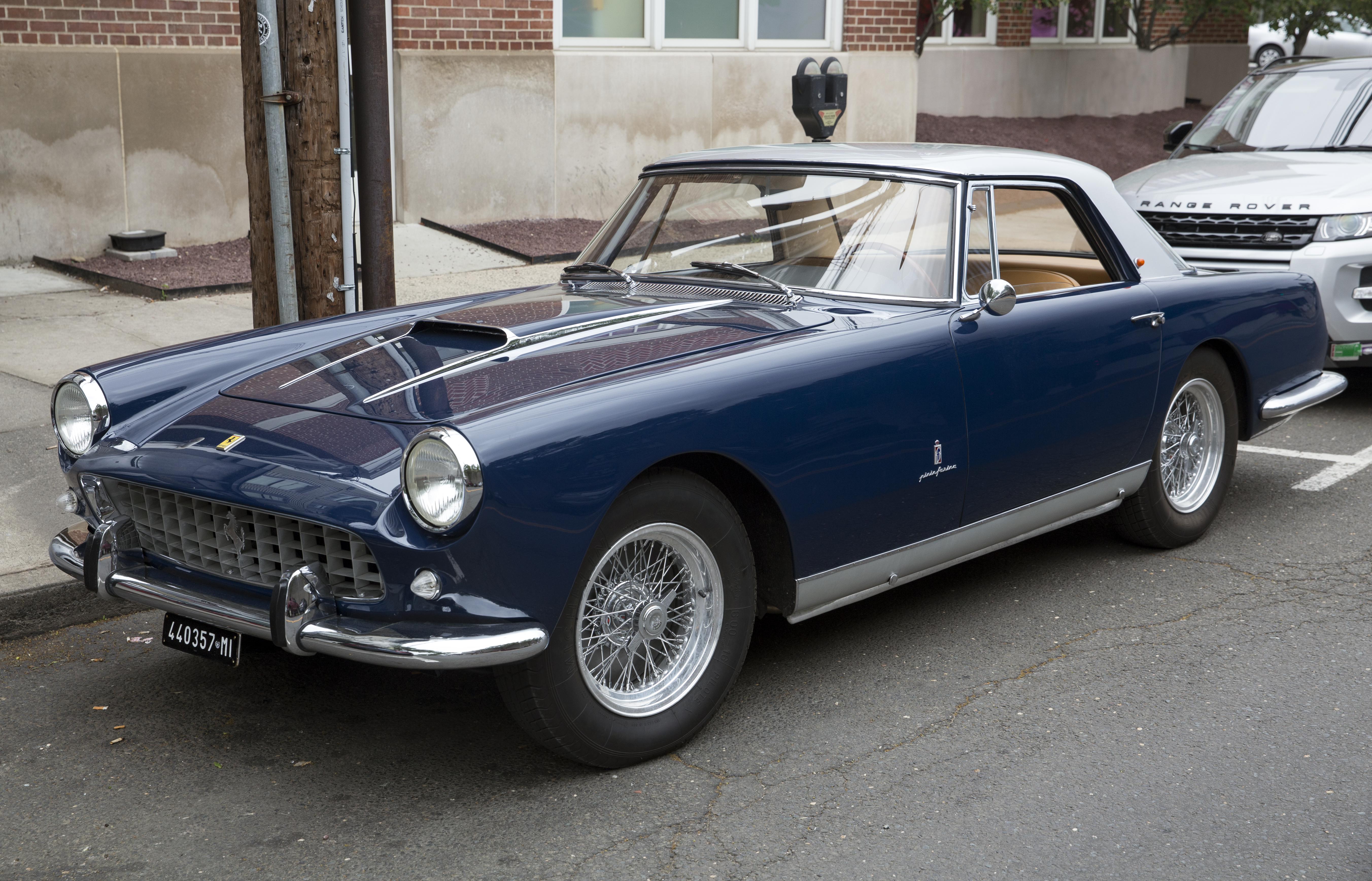 1959 Ferrari 250 GT Pinin Farina Coupé. See category description for more details. A breathtakingly beautiful vehicle.